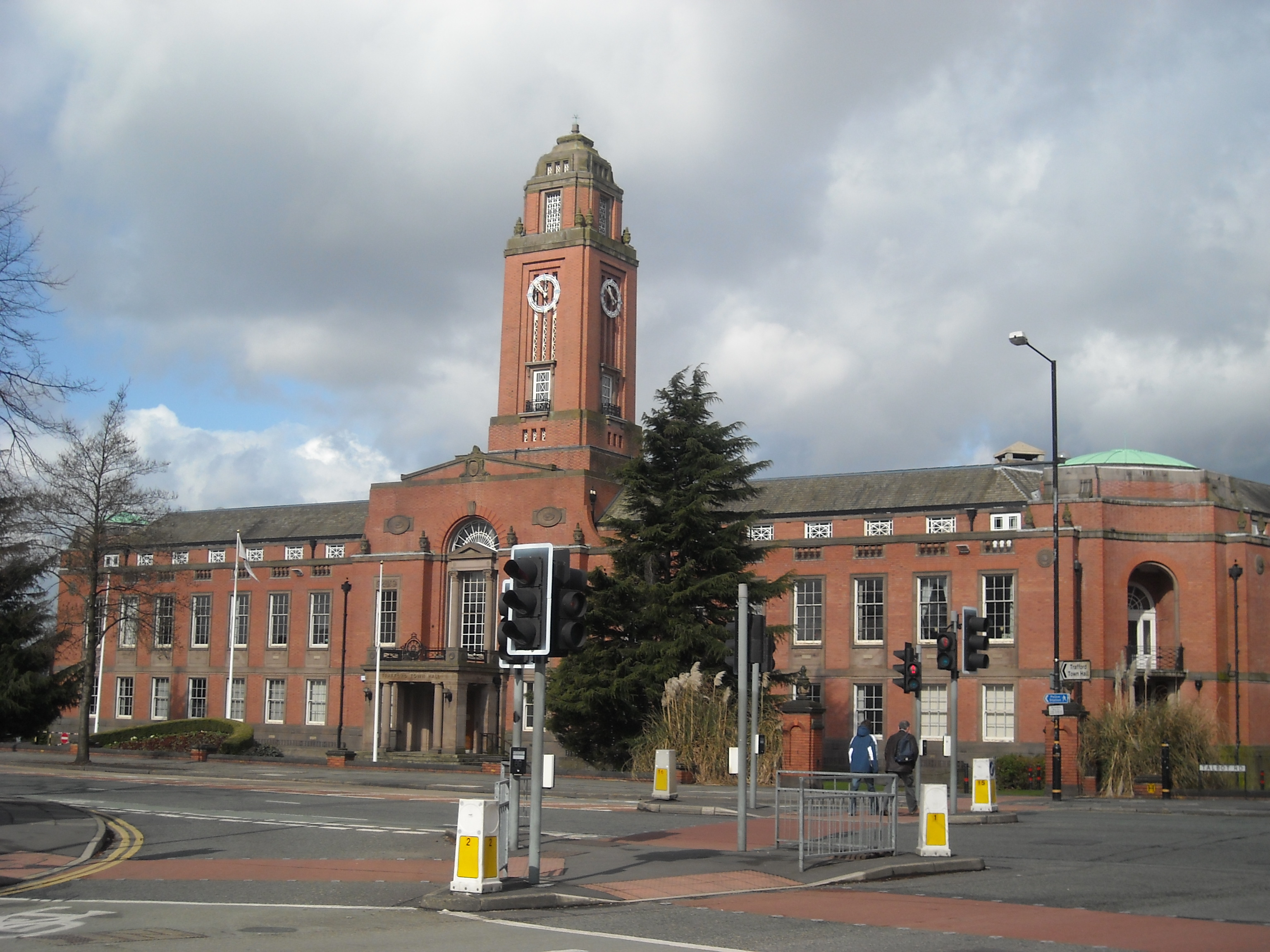 Trafford Town Hall, Stretford, Greater Manchester, England.